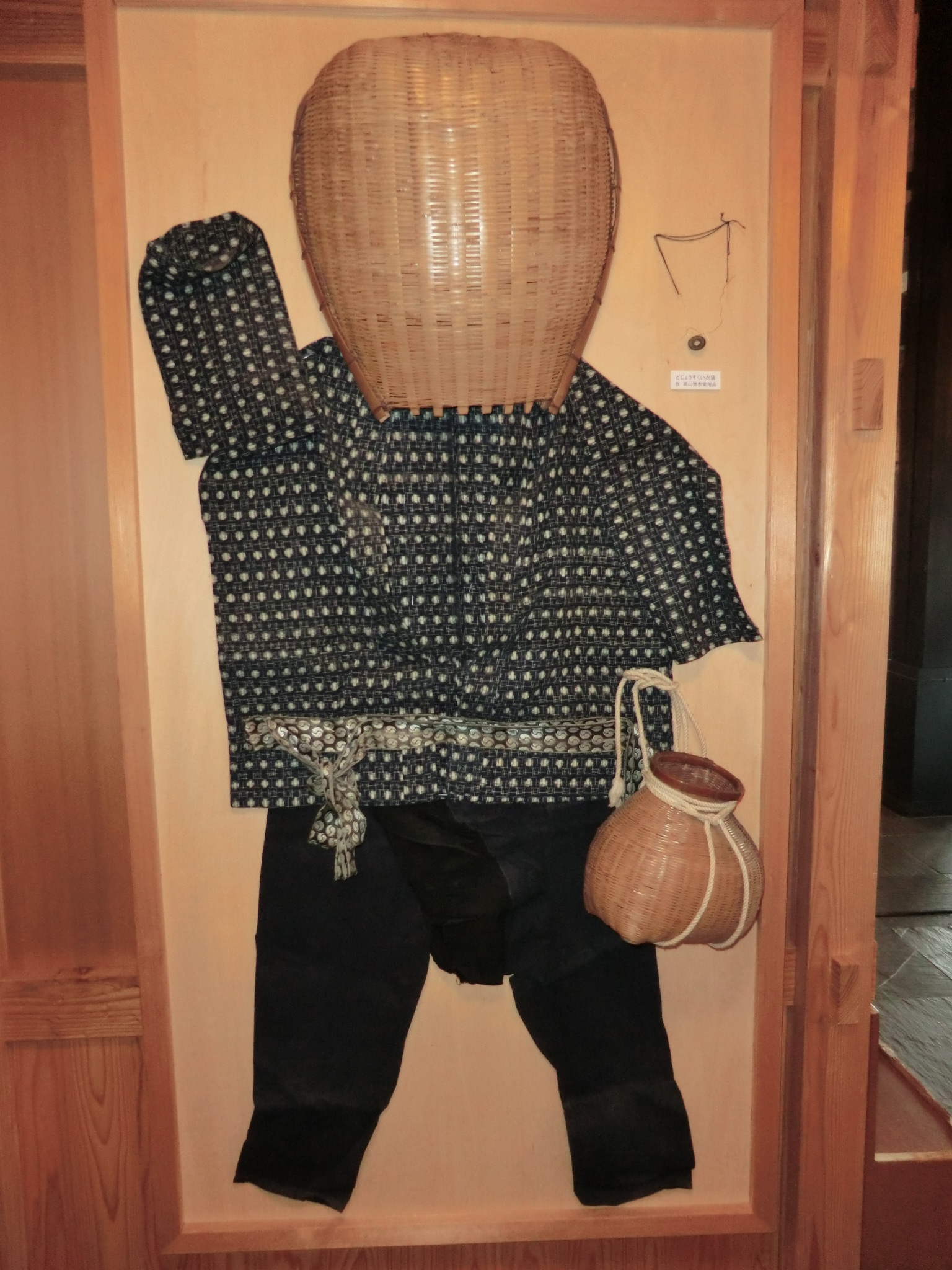 Yasugi-bushi costume, Yasugi-bushi entertainment hall, Adachi city, Shimane pref, Japan